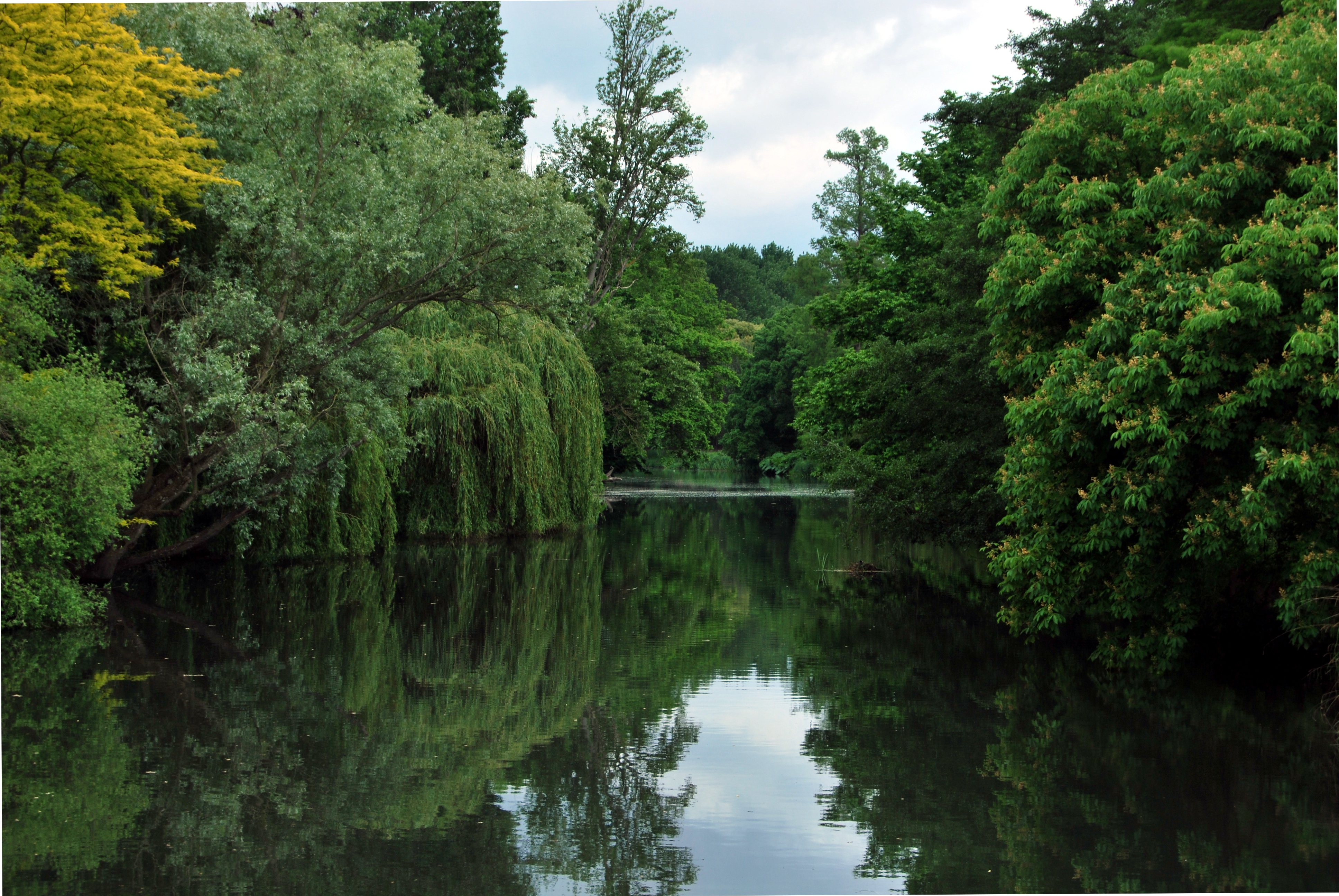 Sypn Park, Brentford, London. Part view of lake.